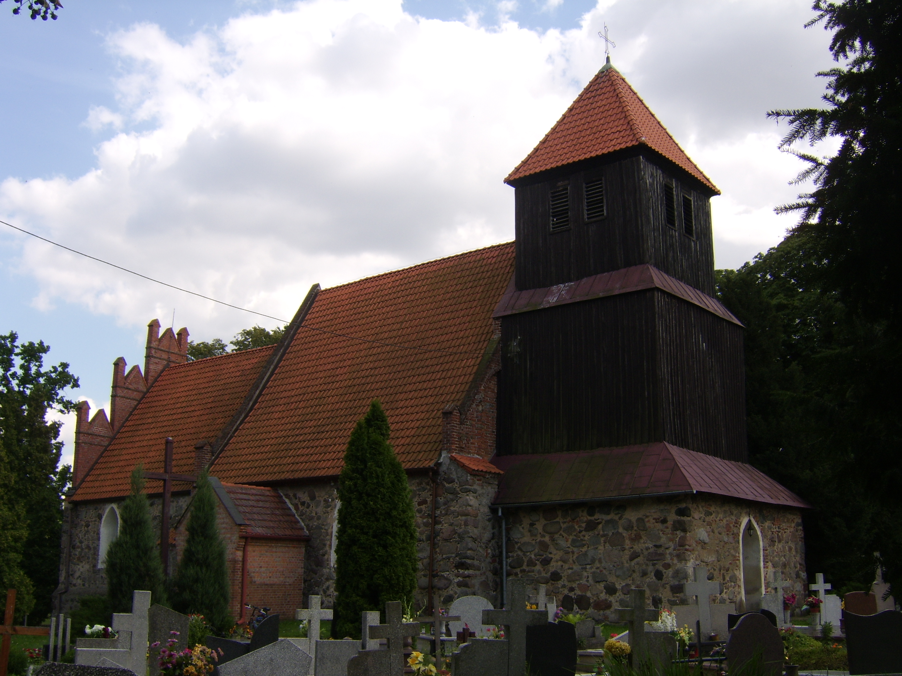 Church of the Assumption in Trzebcz Szlachecki, Poland.